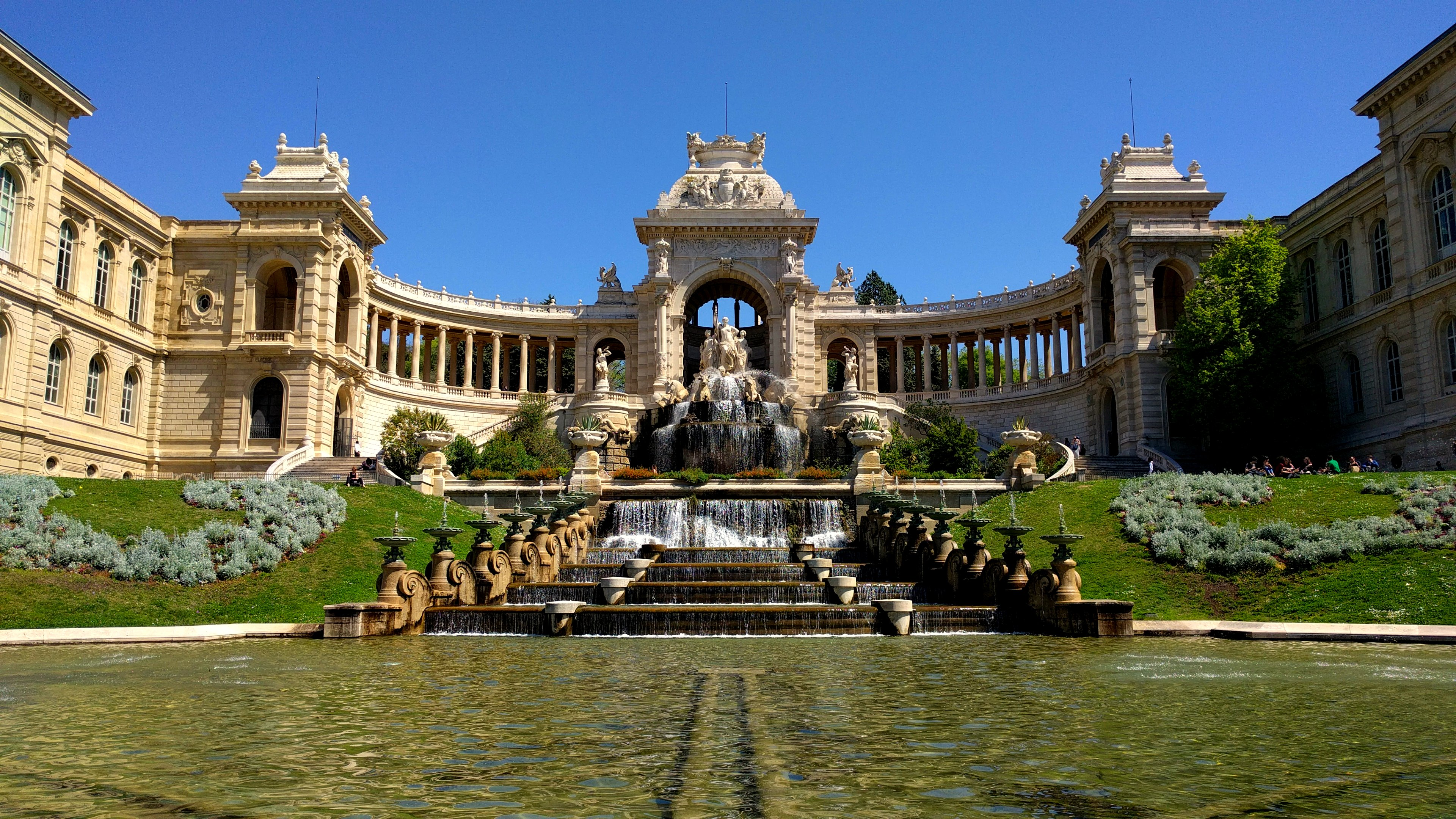 Built to celebrate the inauguration of water pipeline to Marseille